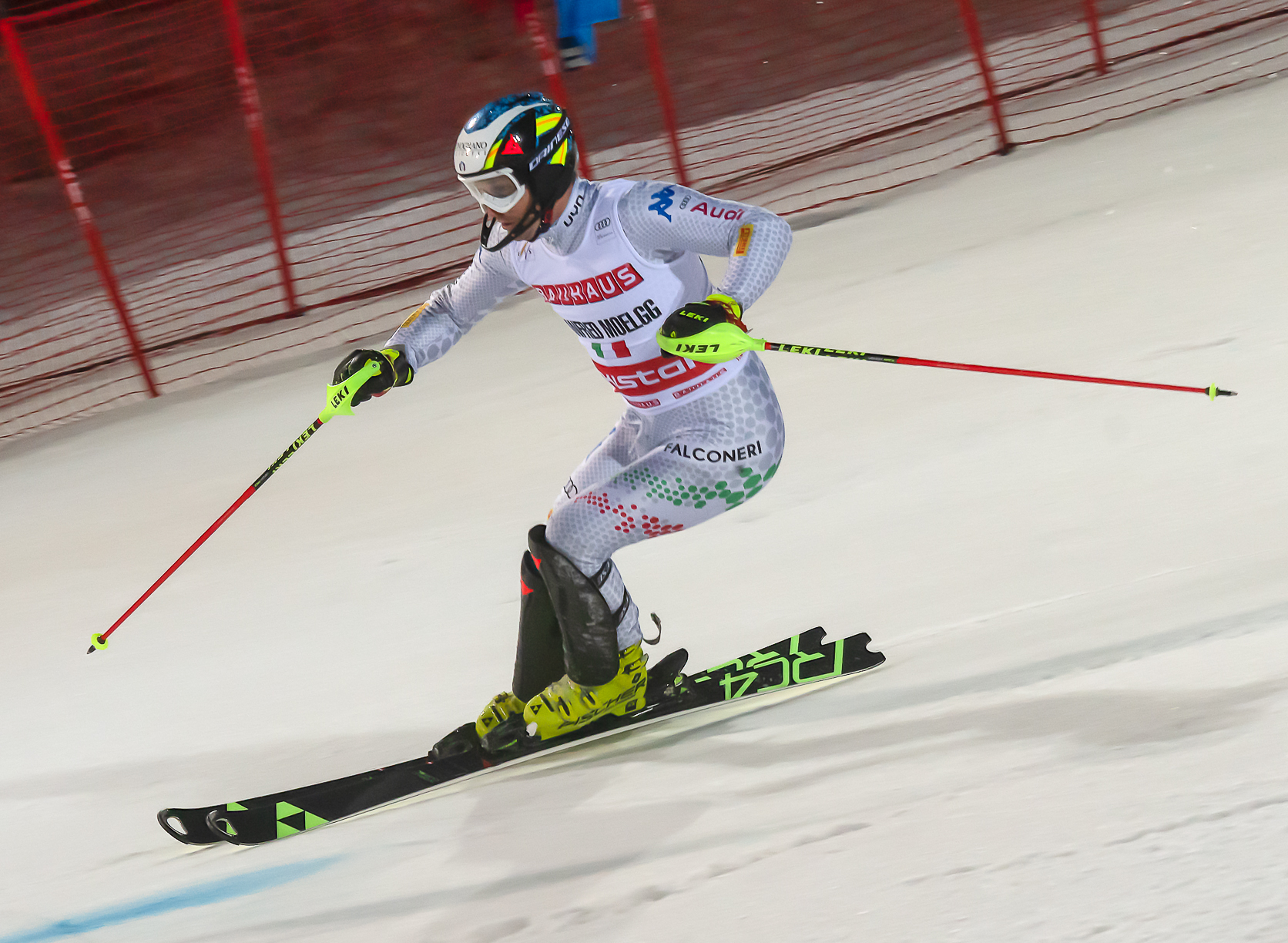 FIS Alpine Skiing World Cup in Stockholm 2019